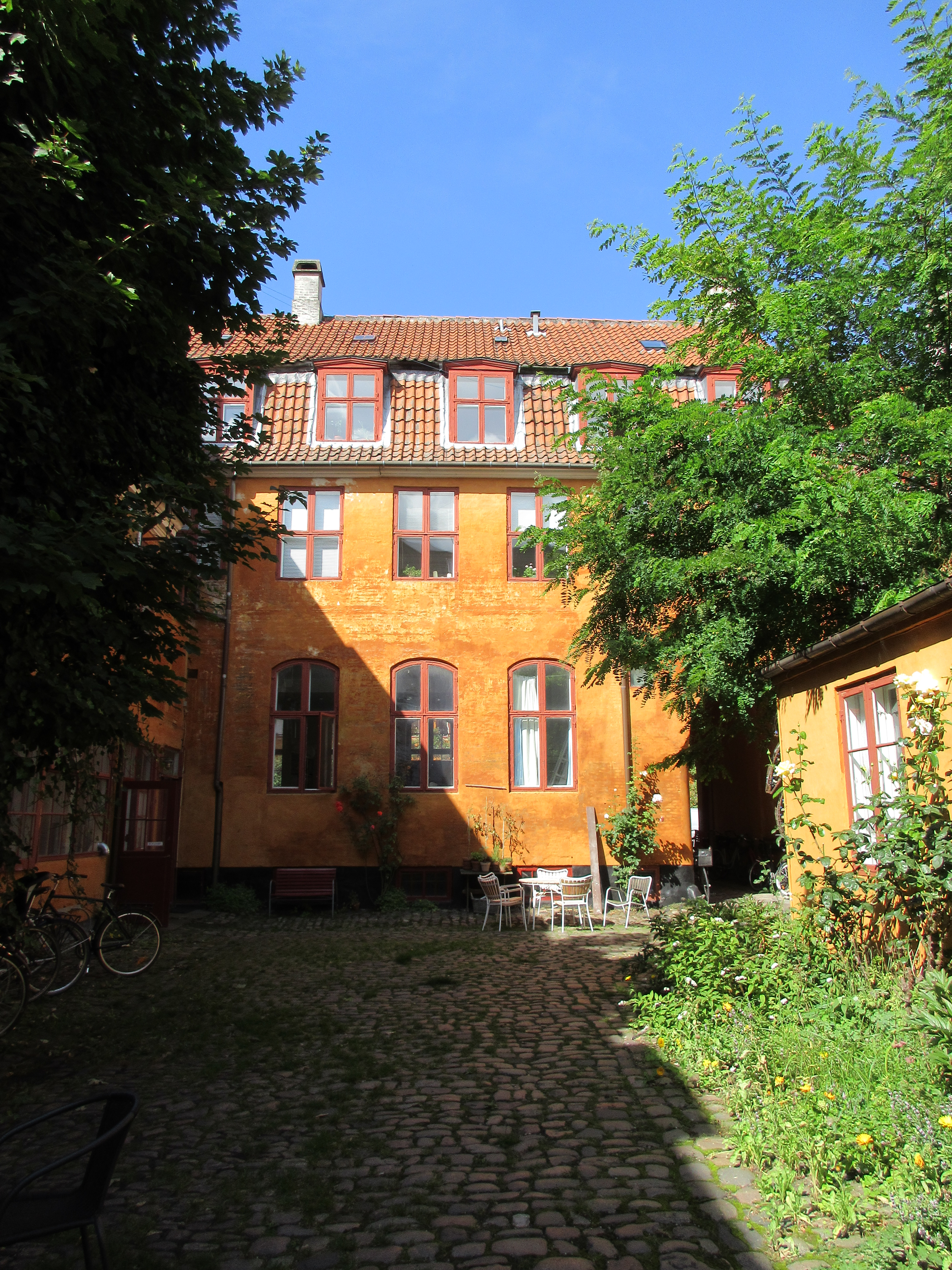 From one of the courtyards in Christians Plejehus in Store Kongensgade in Copenhagen, Denmark